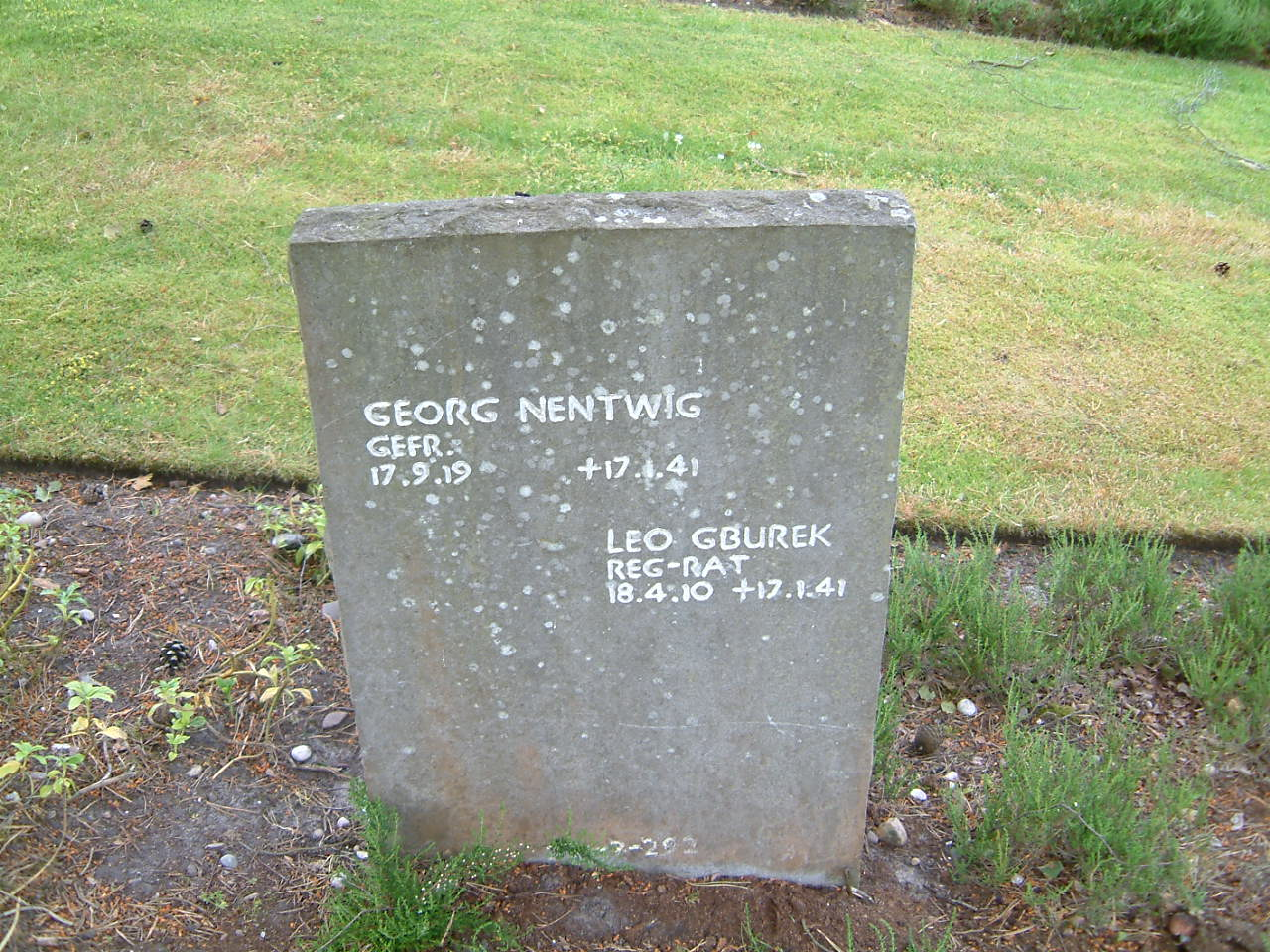 Graves of Georg Nentwig (1919-1941) and Leo Gburek (1910-1941), Deutscher Soldatenfriedhof Cannock Chase, Staffordshire, England (Block 3 Row 10 Graves 291 & 292)